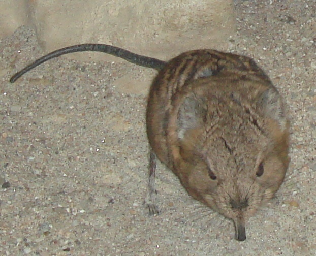 Photo of an elephant shrew (Elephantulus sp.) taken by ElinorD in Frankfurt Zoo on 9 April 2007